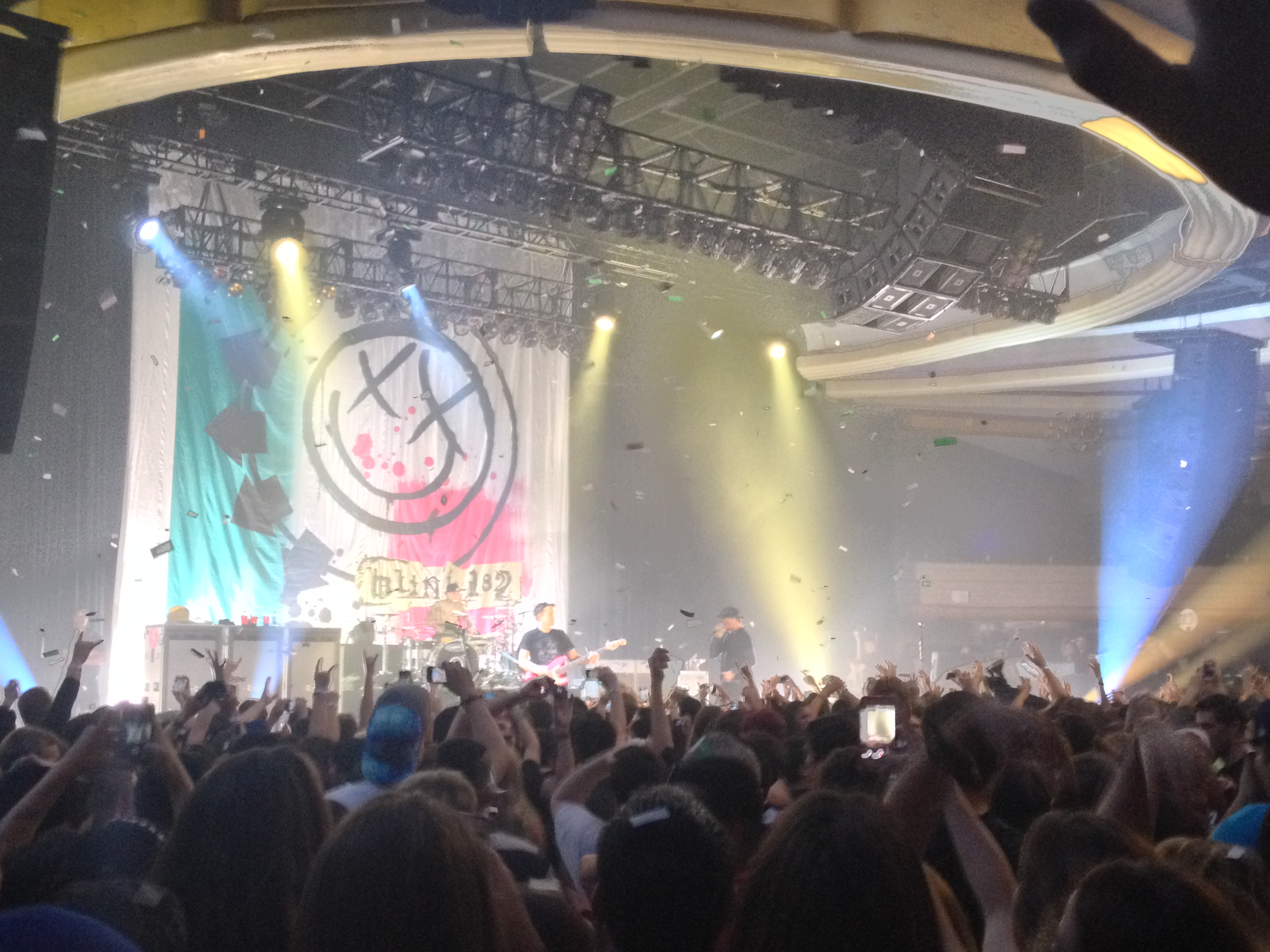 Rock band Blink-182 perform at the Hollywood Palladium in Los Angeles, California on November 6, 2013, celebrating the tenth anniversary of their fifth studio album.